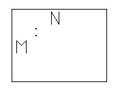 Illustration of aspect ratio